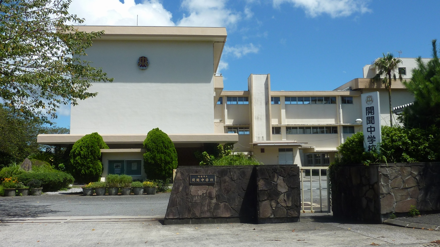 Kaimon Junior High School (Kaimon, Ibusuki City, Kagoshima, Japan)